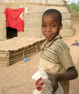 Kid carrying a chicken. Azamalan Village, North Niger. (village on outskirts of Agadez, Niger).